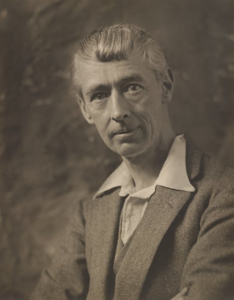 Norman Lindsay 1931